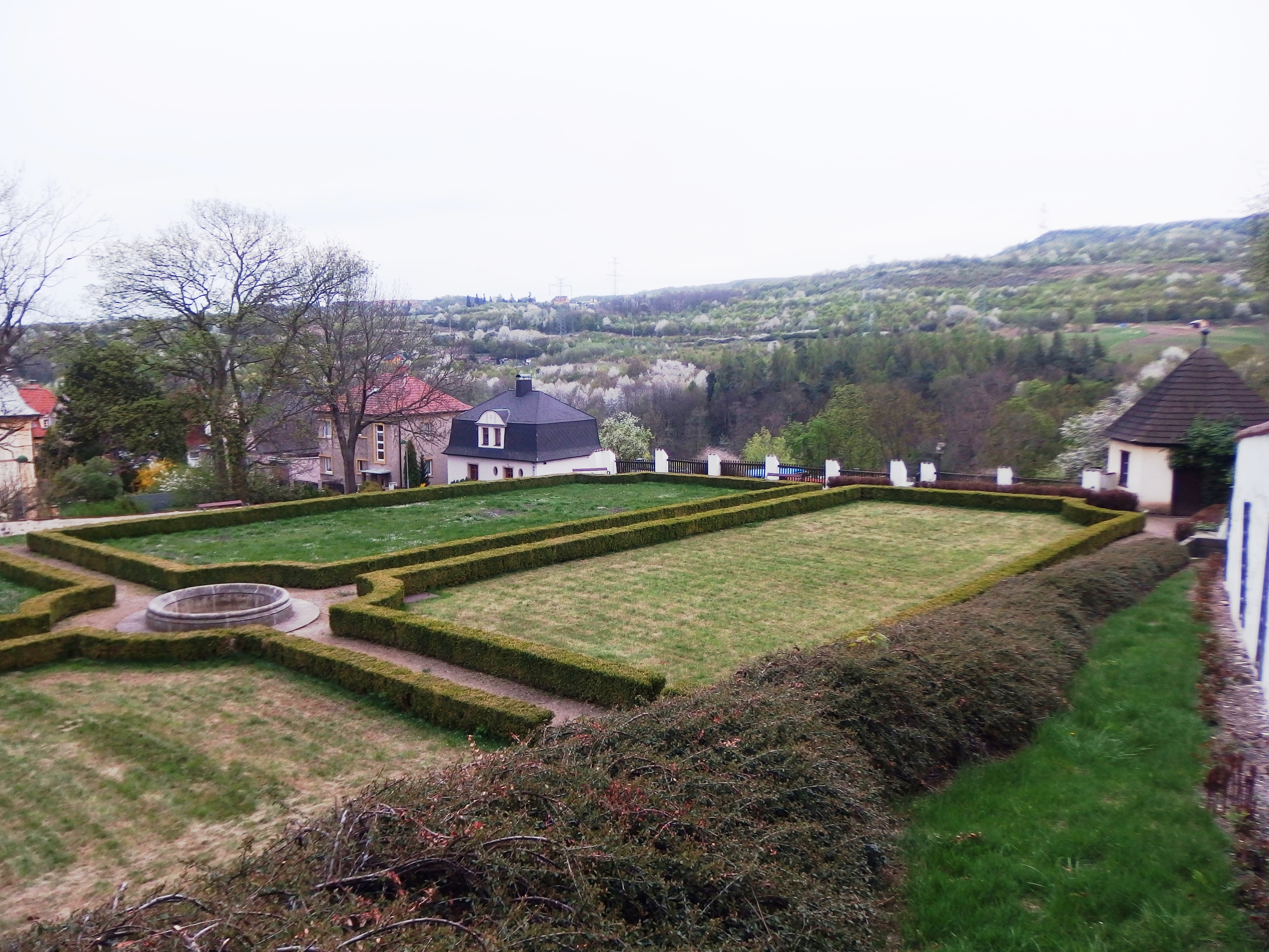 Kadaň, Chomutov District, Czech Republic.